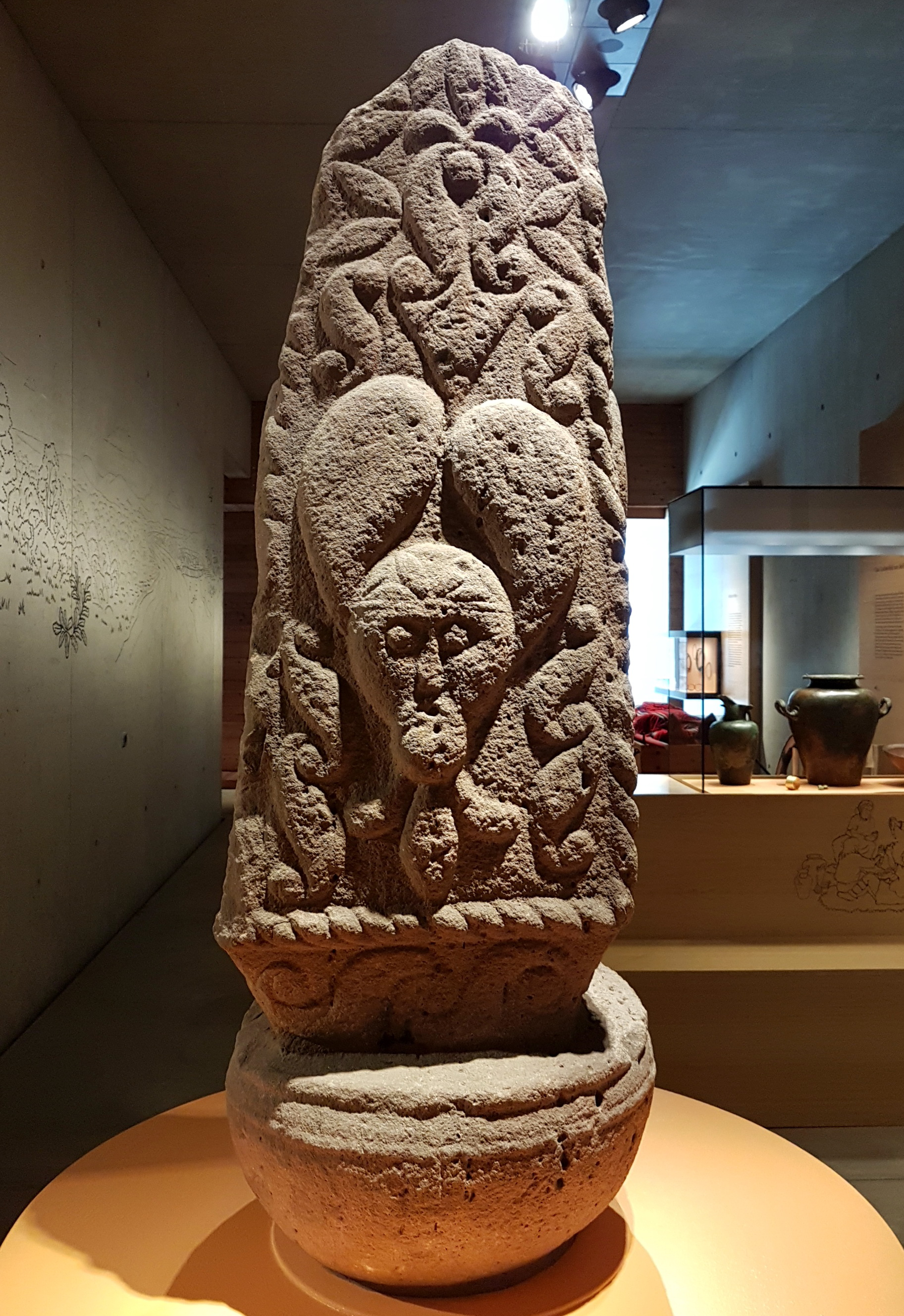 View of the so-called Pfalzfelder Säule in the Rheinisches Landesmuseum in Bonn, Germany. The sculpted column from the 4th/5th c. BC was a Celtic tumulus marker. It was found in the village of Pfalzfeld (Hunsrück region) around 1600 and was a curiosity in the village for more than 300 years. In 1938 it was given to the museum in Bonn.